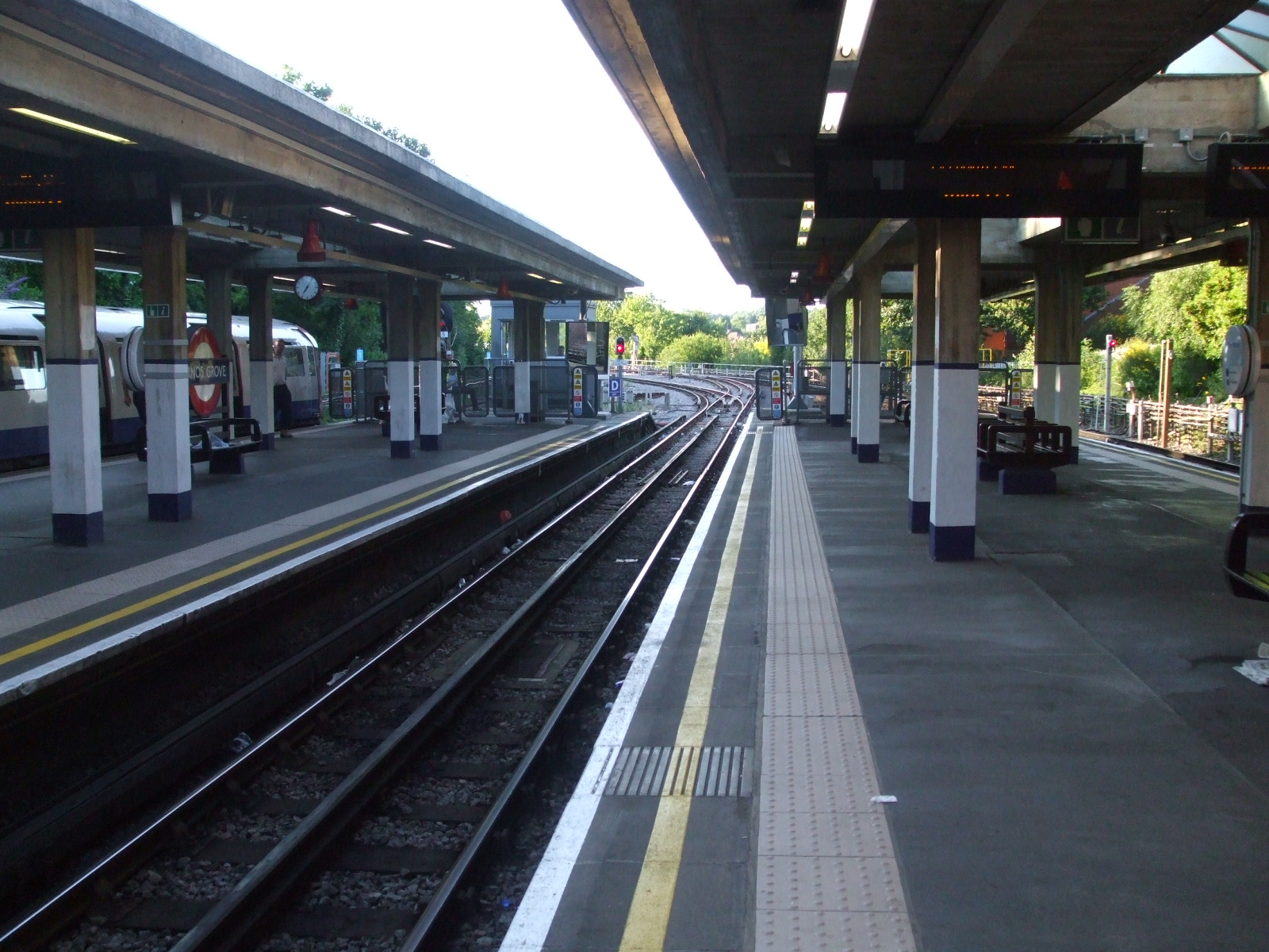 Arnos Grove tube station looking north from centre terminating track